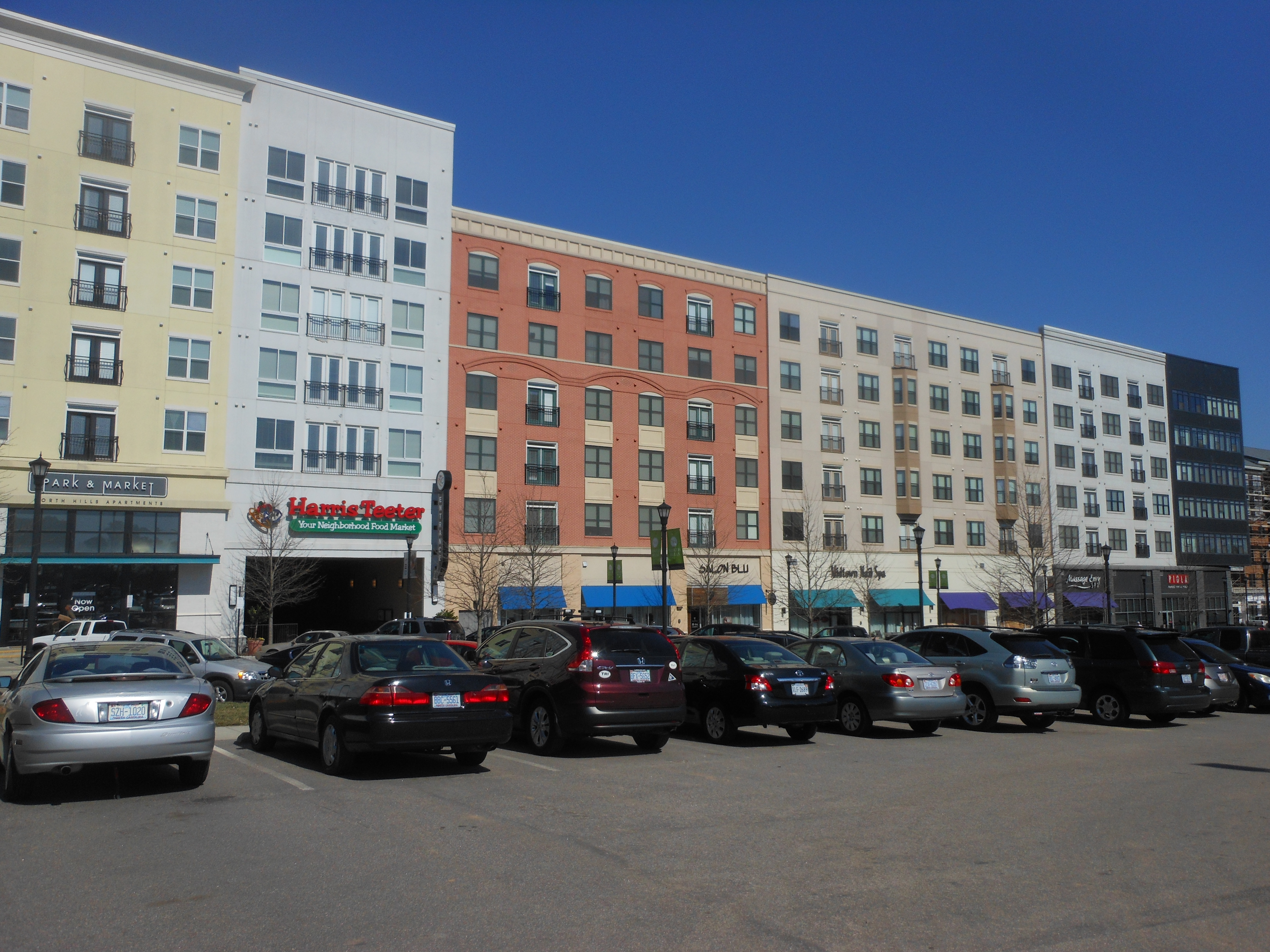 North Hills East complex in Raleigh, NC